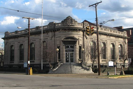 The Museum of Ceramics in East Liverpool, Ohio